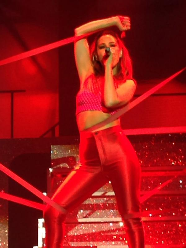 Bring It All Back 2015